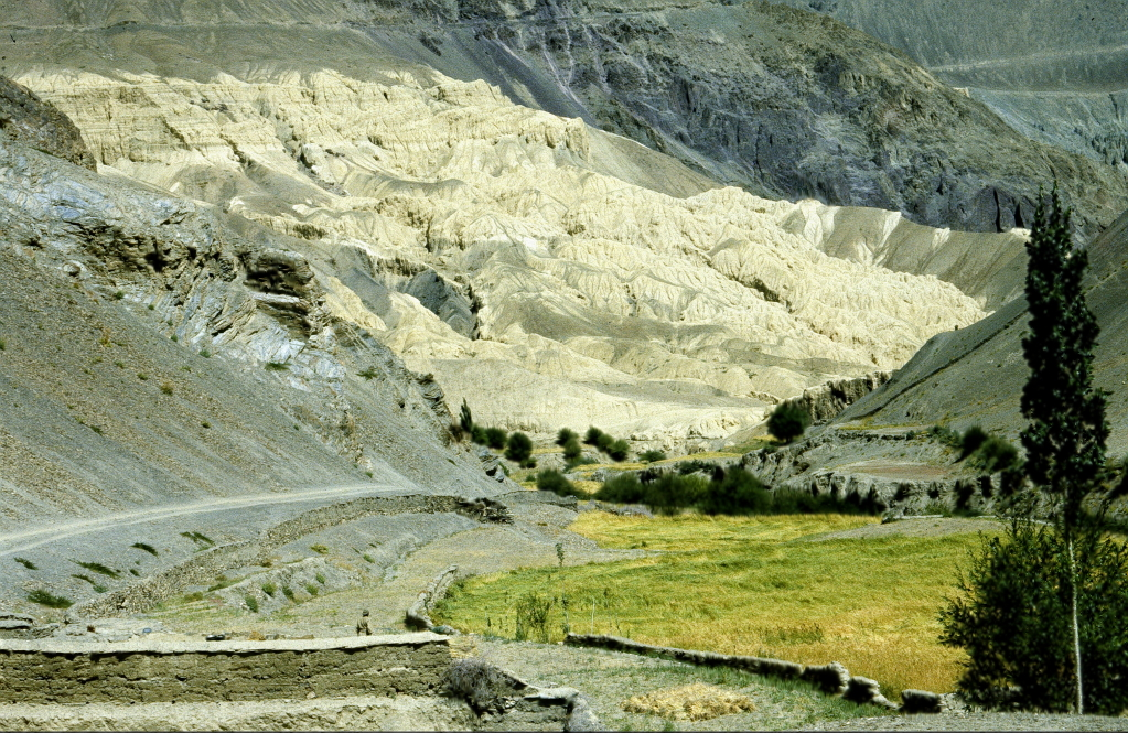 Lamayuru area in Ladakkh, India.